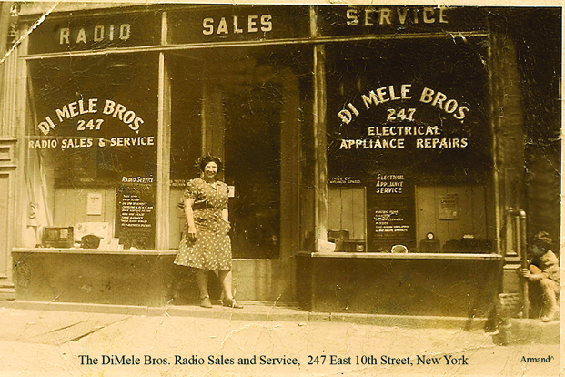 Armand at his parent's radio store on East 10th Street in New York City.